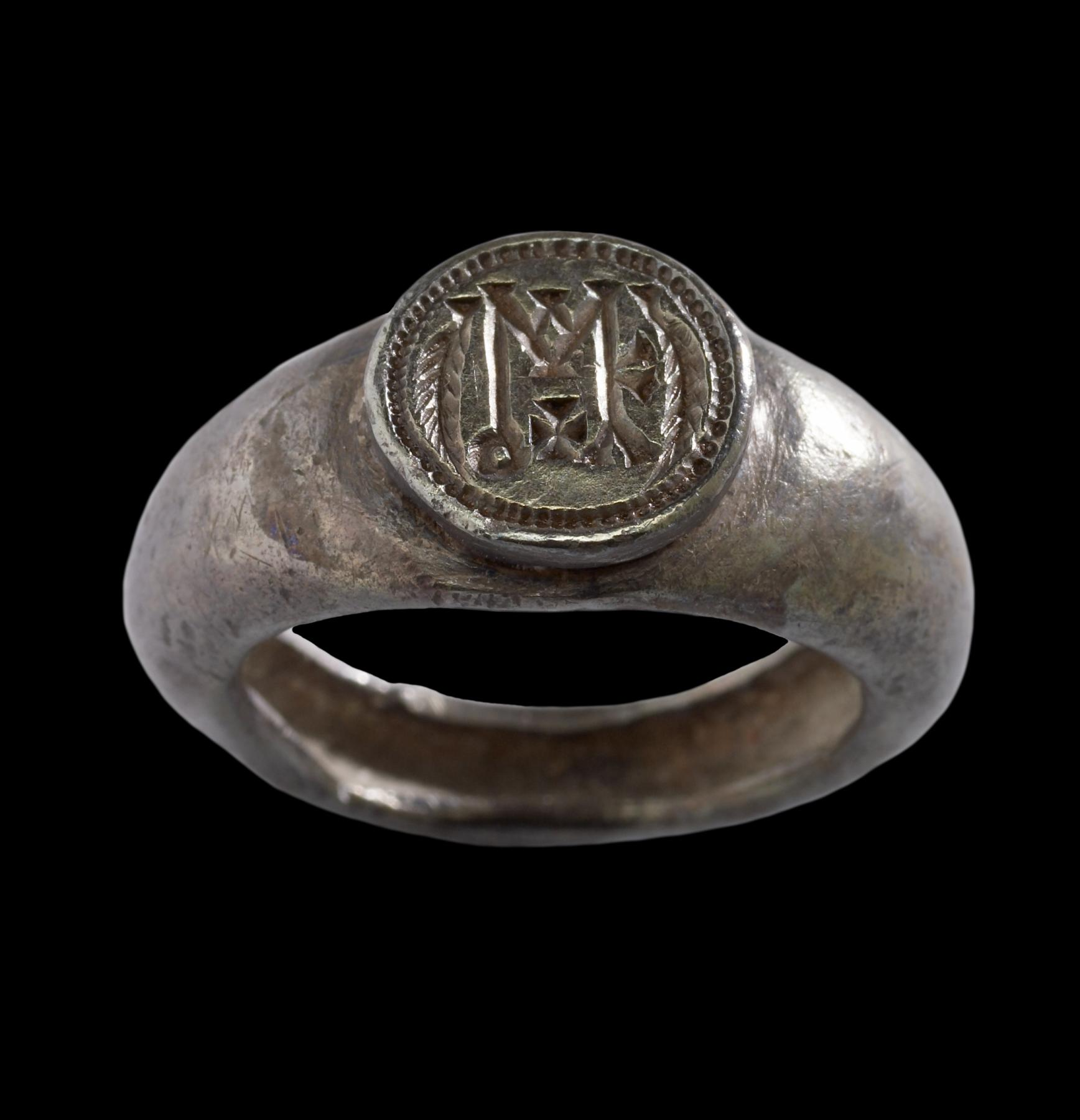 More than simply jewelry, signet rings were essential in the Early Byzantine period for sealing personal documents and validating wills and testaments. By the 6th century, most rings had a personal monogram, such as the block-letter format on this silver one that reads "of Mark".